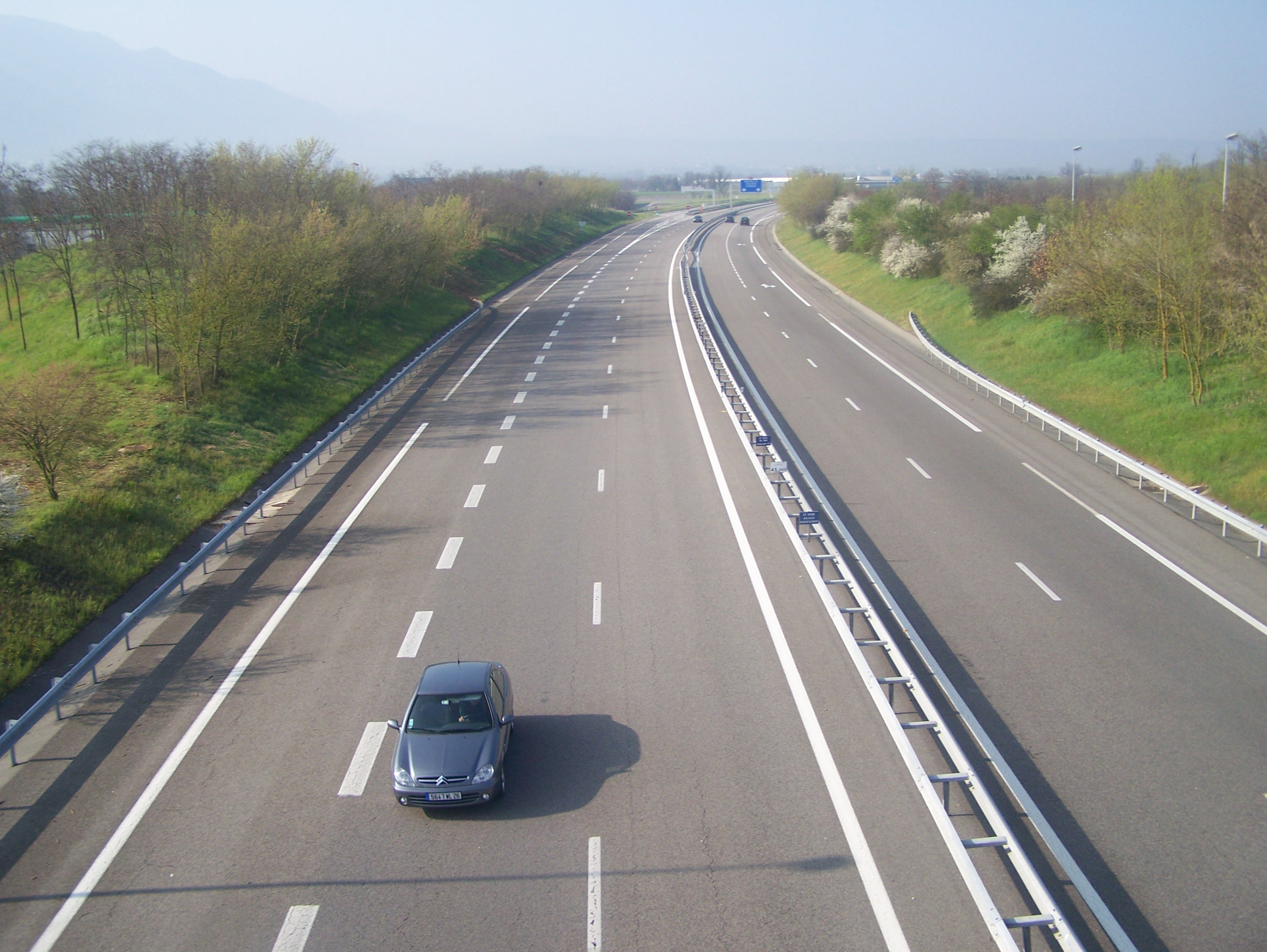 Sight of the French A49 motorway in direction of Valence just after entering the department of Drôme in the morning.